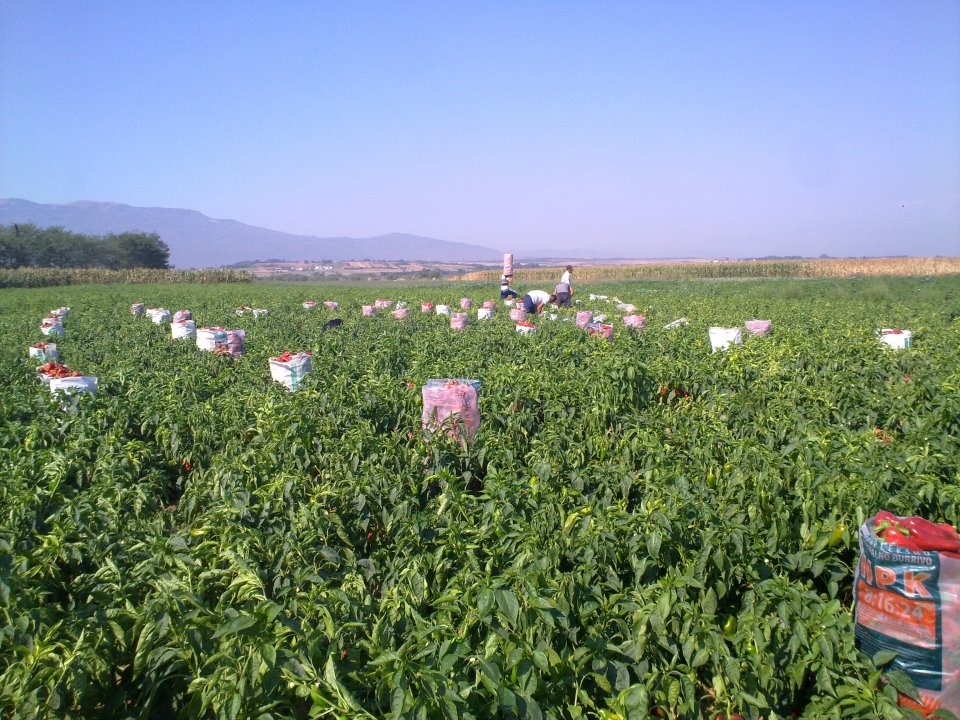 Fields in Krusha e MadheShqip: Fushat e Krushes se Madhe